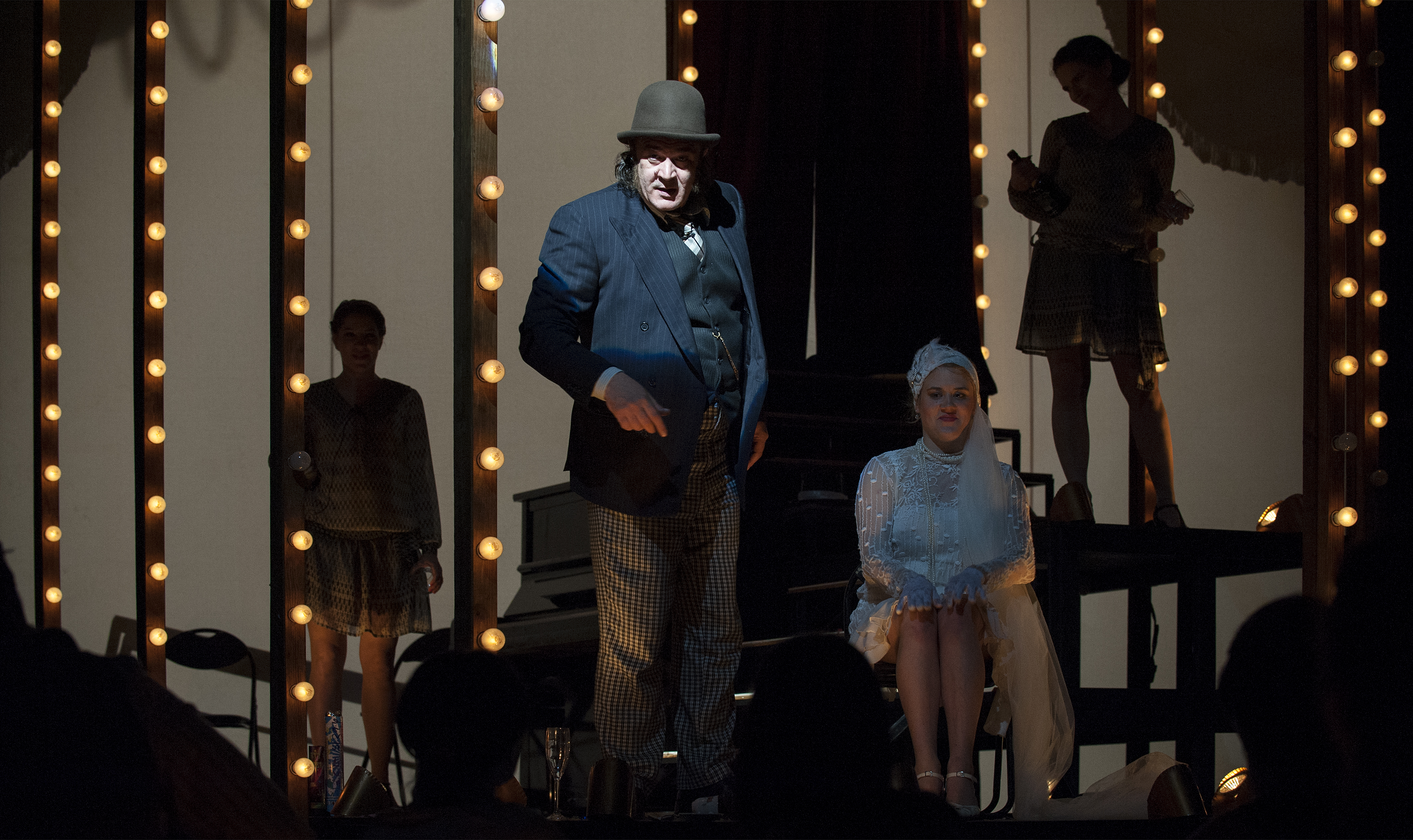 "The Threepenny Opera", a "play with music" by Bertolt Brecht, with music by Kurt Weill, directed by Tomi Janežič, Drama of the Serbian National Theatre & The Royal Theatre Zetski Dom (Co-Production), Cetinje, 2014/15; Boris Isaković Srpski (latinica): „Opera za tri groša”, mjuzikl koji je napisao Bertold Breht, a za koji je muziku komponovao Kurt Veil; režija Tomi Janežič, Koprodukcija:Drama Srpskog narodnog pozorišta i Kraljevsko pozorište Zetski dom, 2014-15, Cetinje; Boris Isaković Српски (ћирилица): „Опера за три гроша“, мјузикл који је написао Бертолд Брехт, за који је музику компоновао Курт Веил; режија Томи Јанежич, Копродукција: Драма Српског народног позоришта и Краљевско позориште Зетски дом, 2014-15, Цетиње; Борис Исаковић